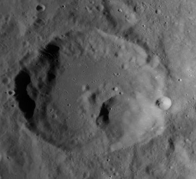 Valier crater